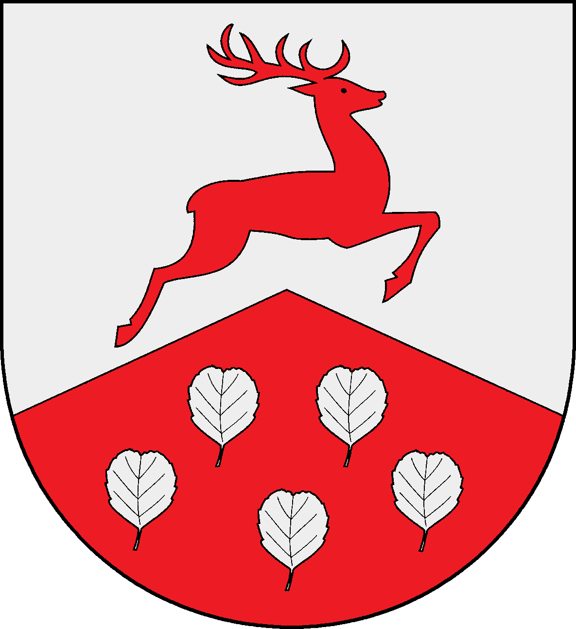 Coat of arms of the municipality Brinjahe in Schleswig-Holstein, Germany.